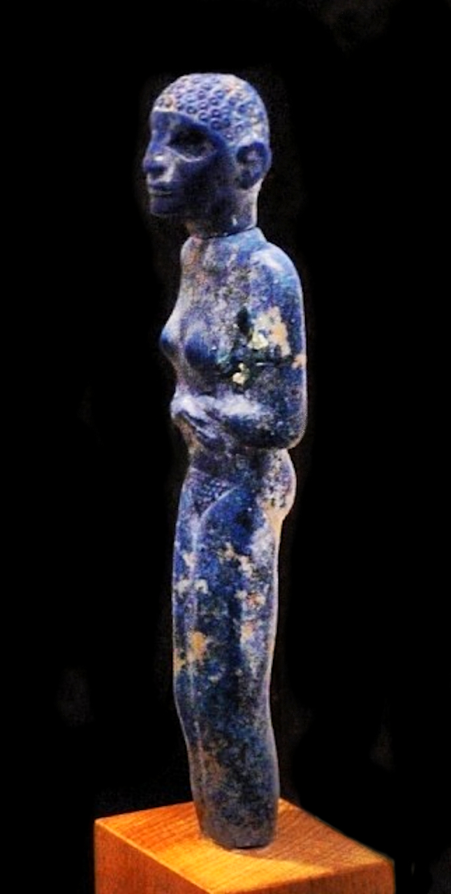 Lapis lazuli woman. Egypt's closest known source of lapis lazuli is Afghanistan, and the material was therefore highly-prized. The head and body of this statuette were made separately and pegged together. The eyes are hollowed for inlay. The figure's short tightly-curled hair and the position of her hands and arms are unparalleled in Predynastic art. These unique features may suggest that the piece is not of Egyptian origin. From the Temple Enclosure at Hierakonpolis, Late Predynastic - Early Dynastic (about 3300-3000 BC). Egyptian Research Account excavations (body) and given by Harold Jones (head). AN1896-1908 E.1057, E.1057A (Ashmolean)